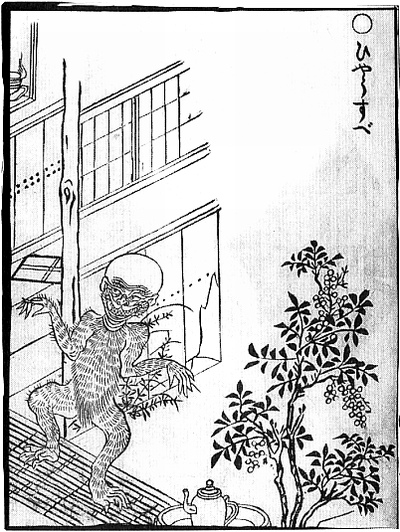 Hyousube (ひやうすべ, A kind of hair-covered kappa) from the Gazu Hyakki Yagyō